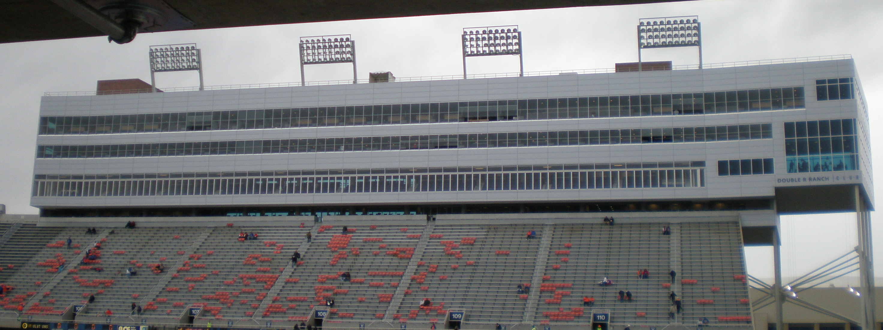 Stueckle Sky Club from inside Bronco Stadium